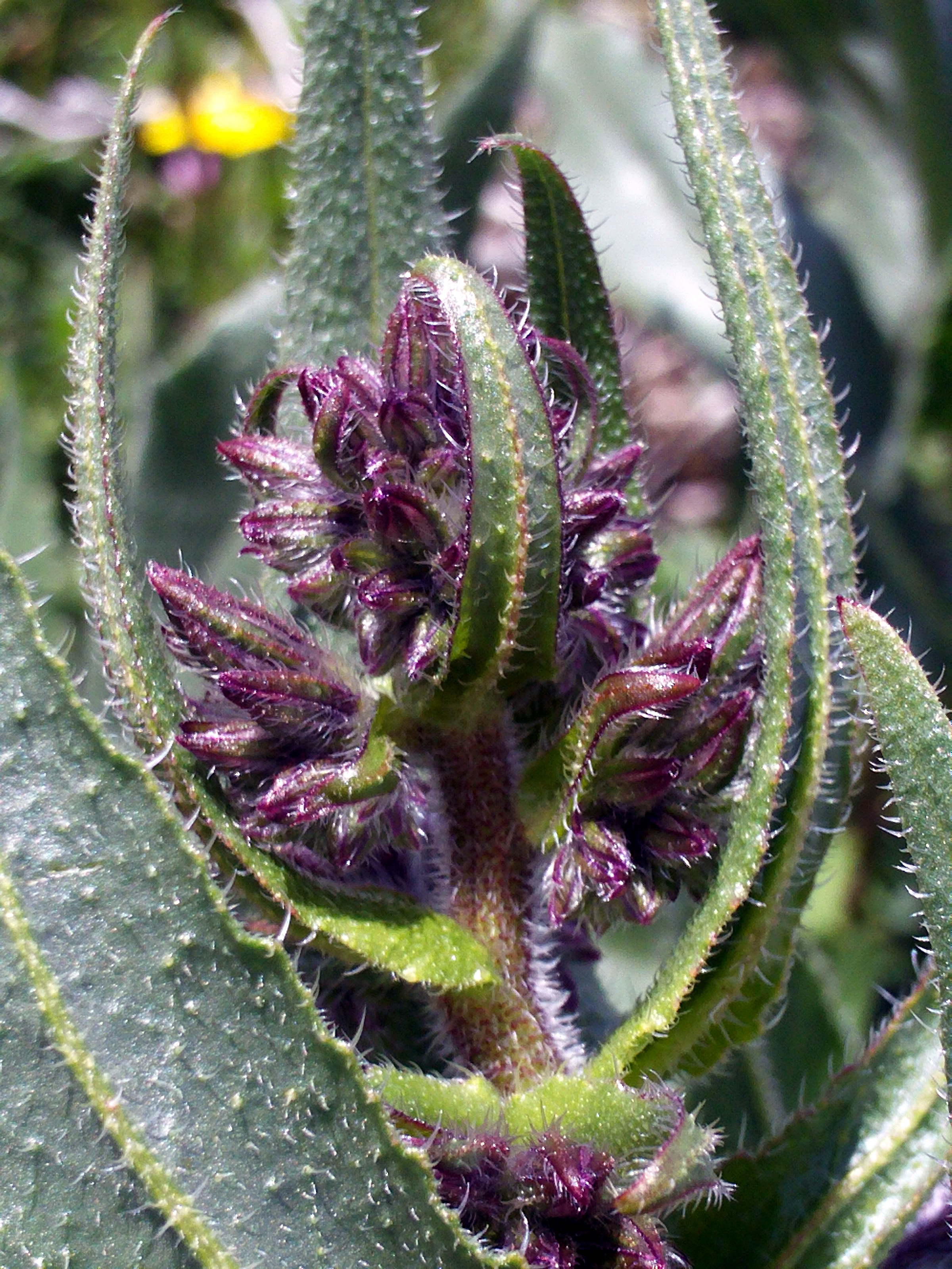 Anchusa azurea apex, Dehesa Boyal de Puertollano, Spain